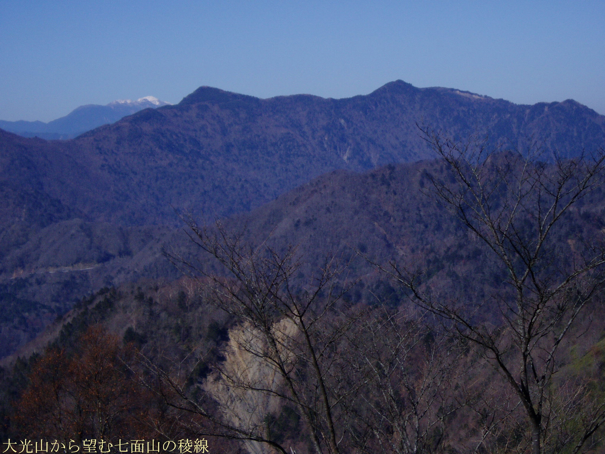 Mount Shichimen-san (Japan, Yamanashi Prefecture, 1989m) from Mt. Opikkari